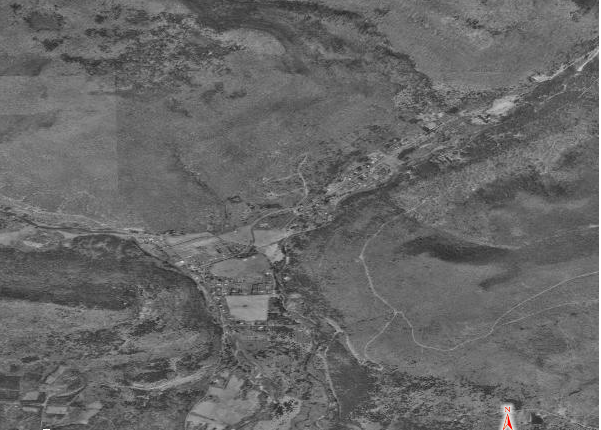 Bird's-eye view of Jamison City, Pennsylvania